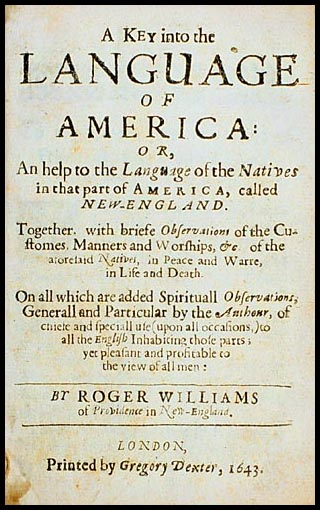 This is my copy of the front page of: A Key into the language of America, by Roger Williams, first published in 1643 in London, England by Gregory Dexter.